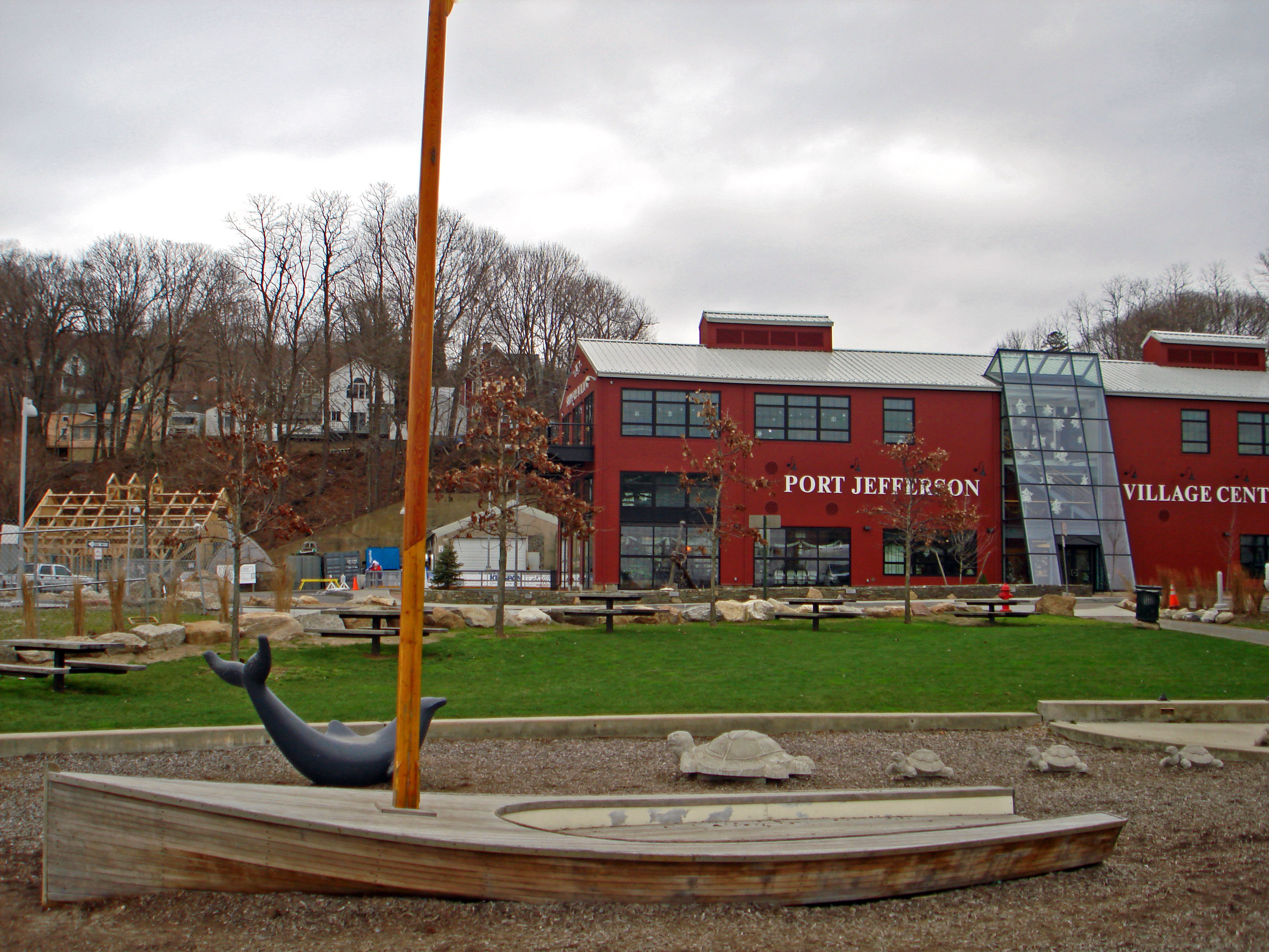 Village Center as seen from the harbor in Port Jefferson.